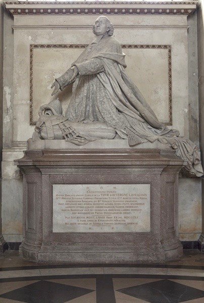 Arras; Cathédrale; Nord-Pas-de-Calais-Picardie, Pas-de-Calais; France; ref: PM_102832_F_Arras; Monument funéraire de Hugoni Roberto Joanni Carolo de la Tour d'Auvergne Lavragveris; Cultural heritage/Cathedral; Europe/France/Arras; Wiki Commons; photo: Paul M.R.Maeyaert; © Paul M.R. Maeyaert